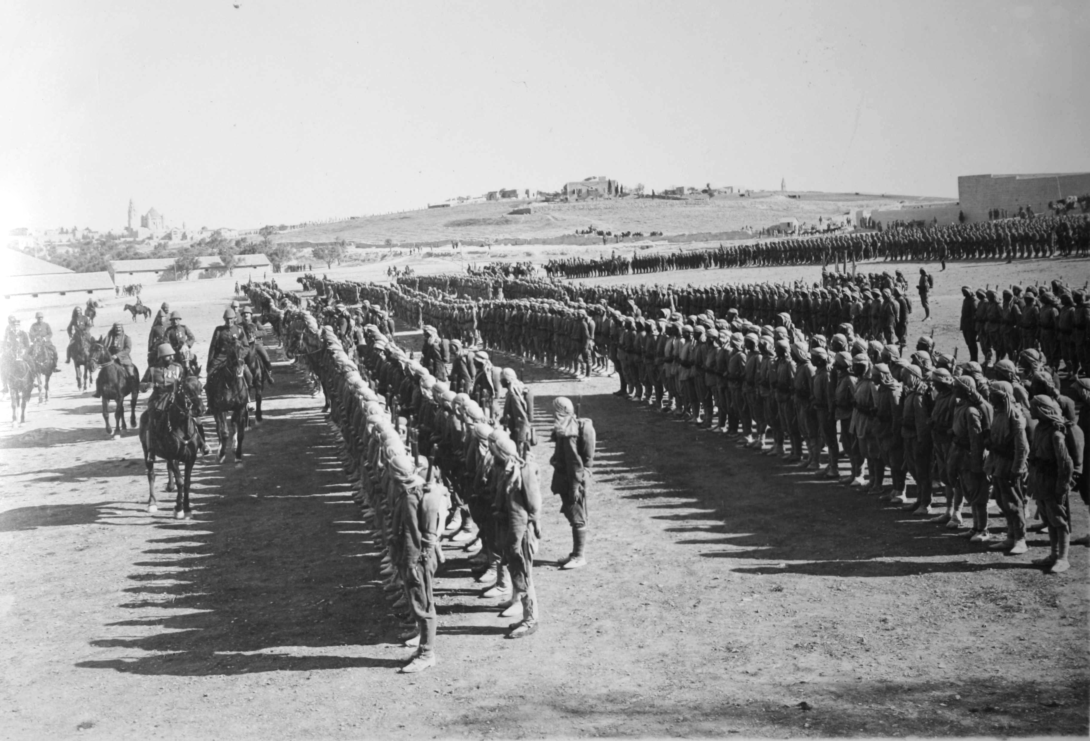 Ottoman Soldiers during World war I